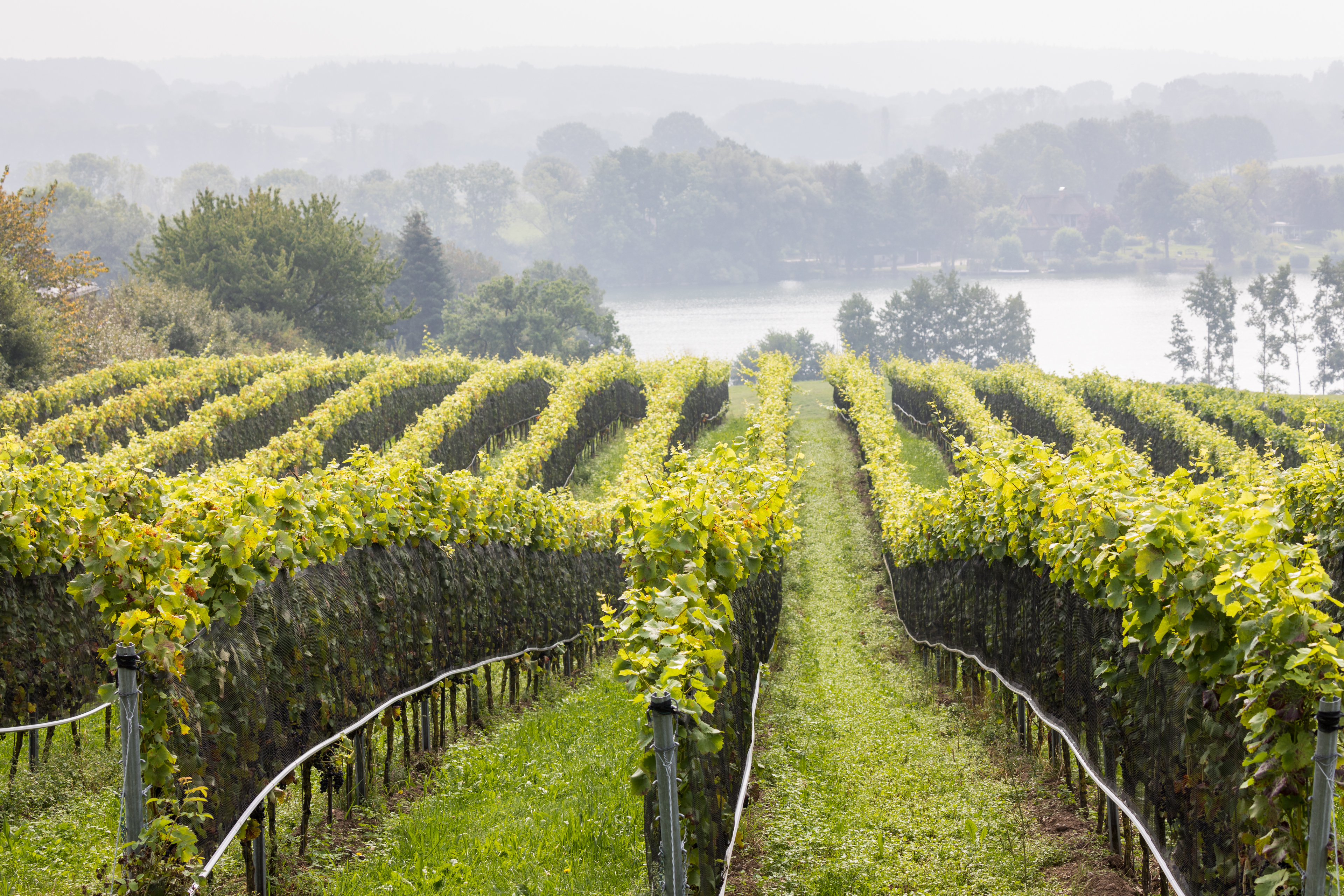 Vineyard at Grebin Mill near the Baltic Sea, Schleswig-Holstein, Germany.